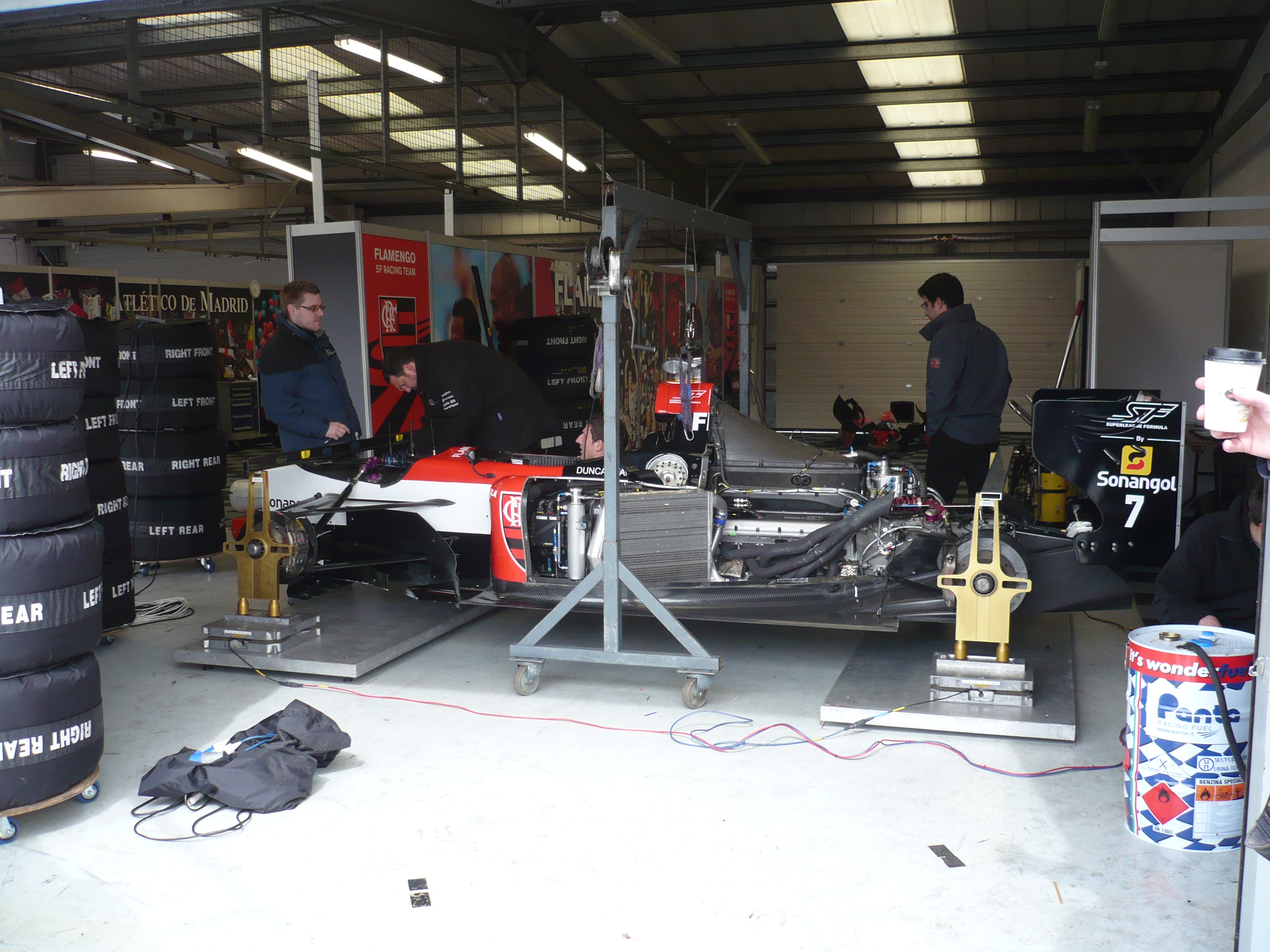 The CR Flamengo pitlane garage and SF car. Photo taken by me at Silverstone Circuit in 2010.